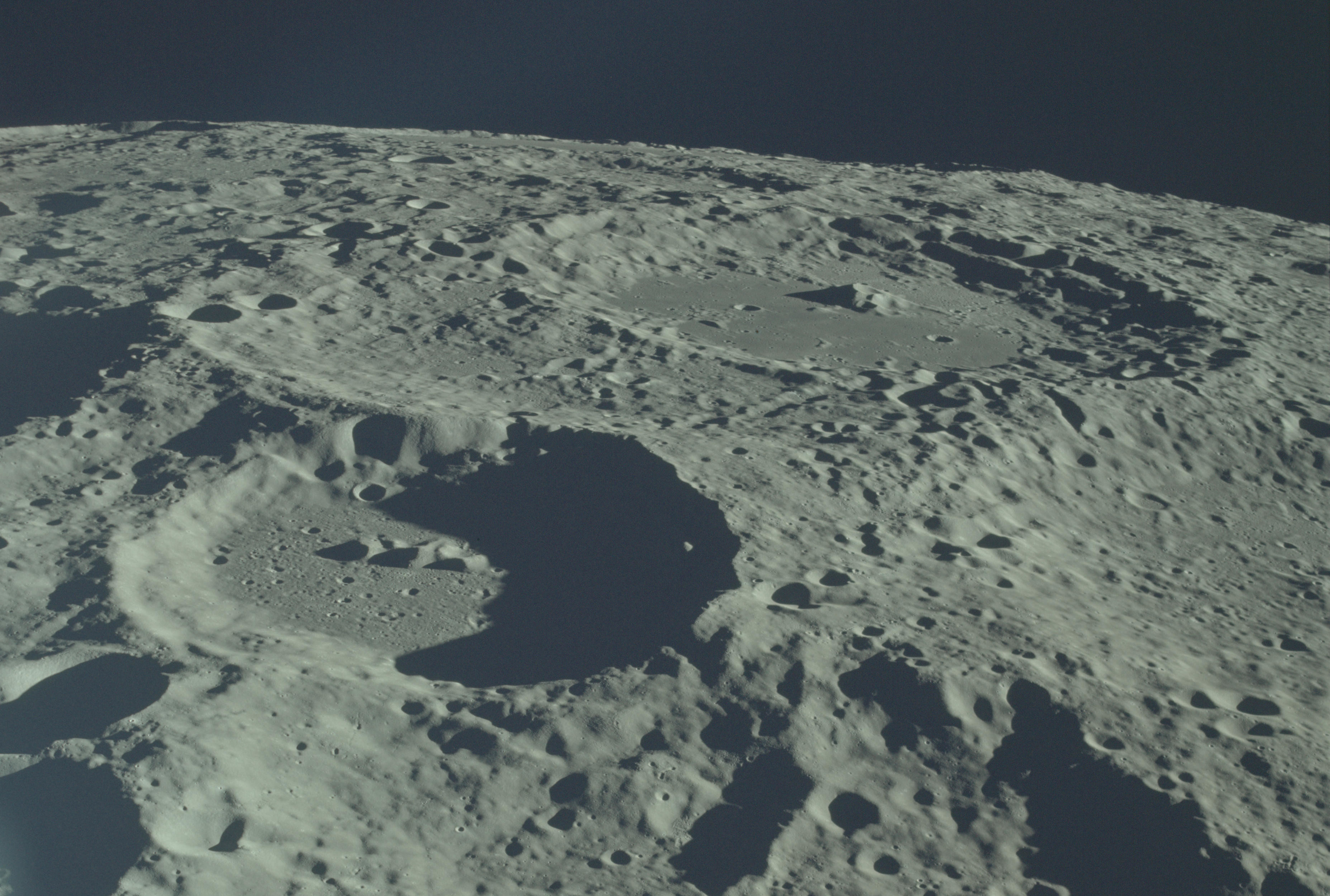 This photo, taken from over 126-km diameter Orlov Y, shows the deeply shadowed Orlov to the lower left of center, with 125-km Leeuwenhoek near the horizon. Leeuwenhoek overlaps the similarly-sized Leeuwenhoek E (which butts up against the smaller Orlov).